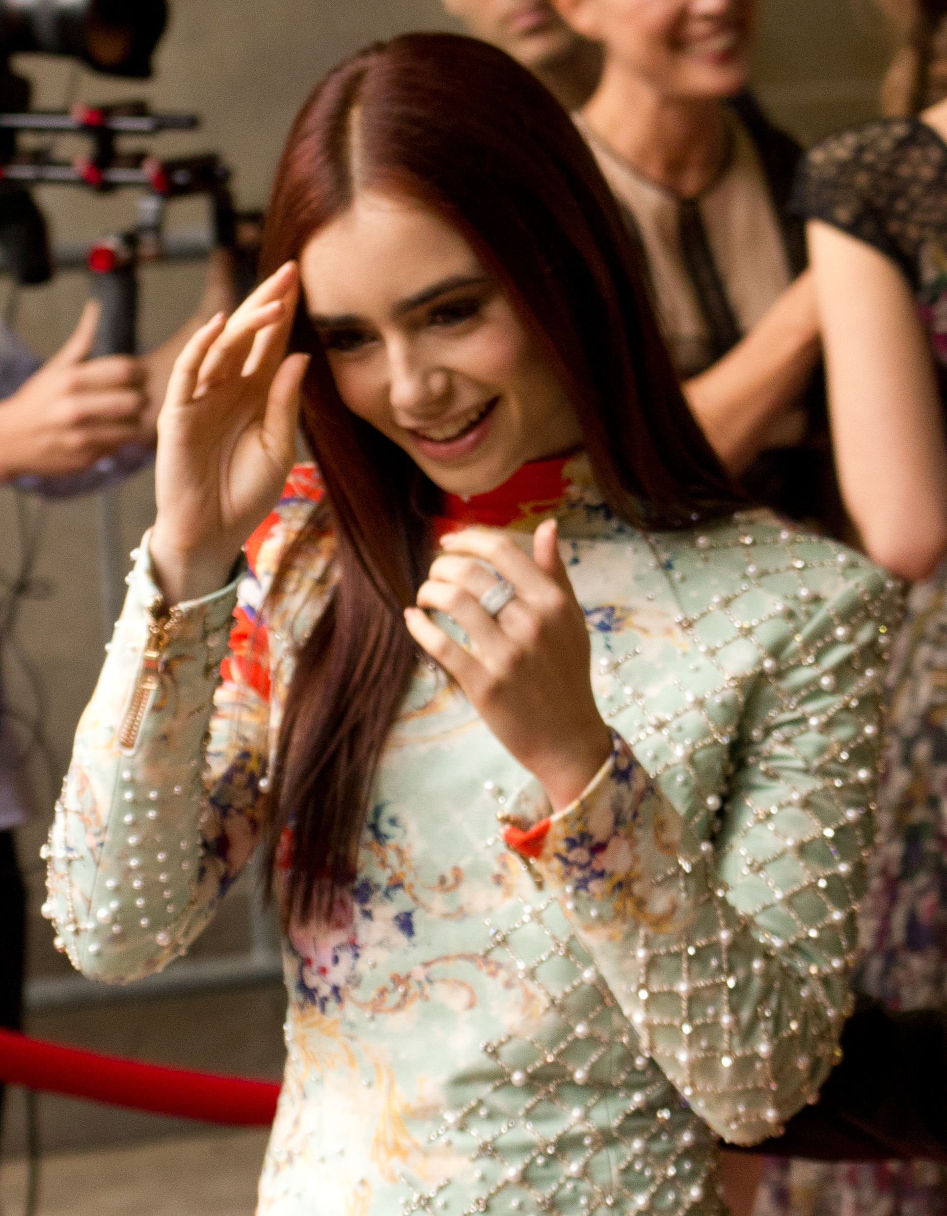 Lily Collins at the Toronto International Film Festival 2012.